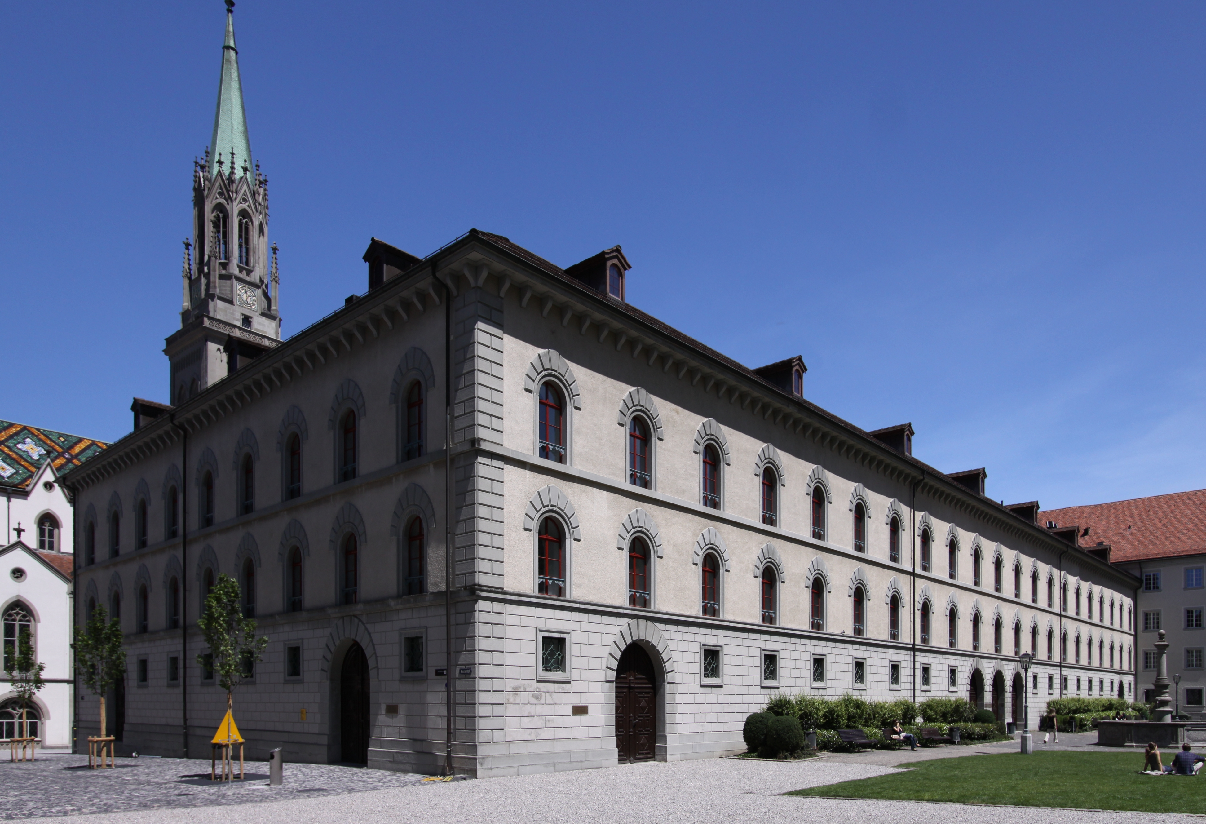 State Archives of the Canton of St. Gallen, Klosterhof 1, St. Gallen